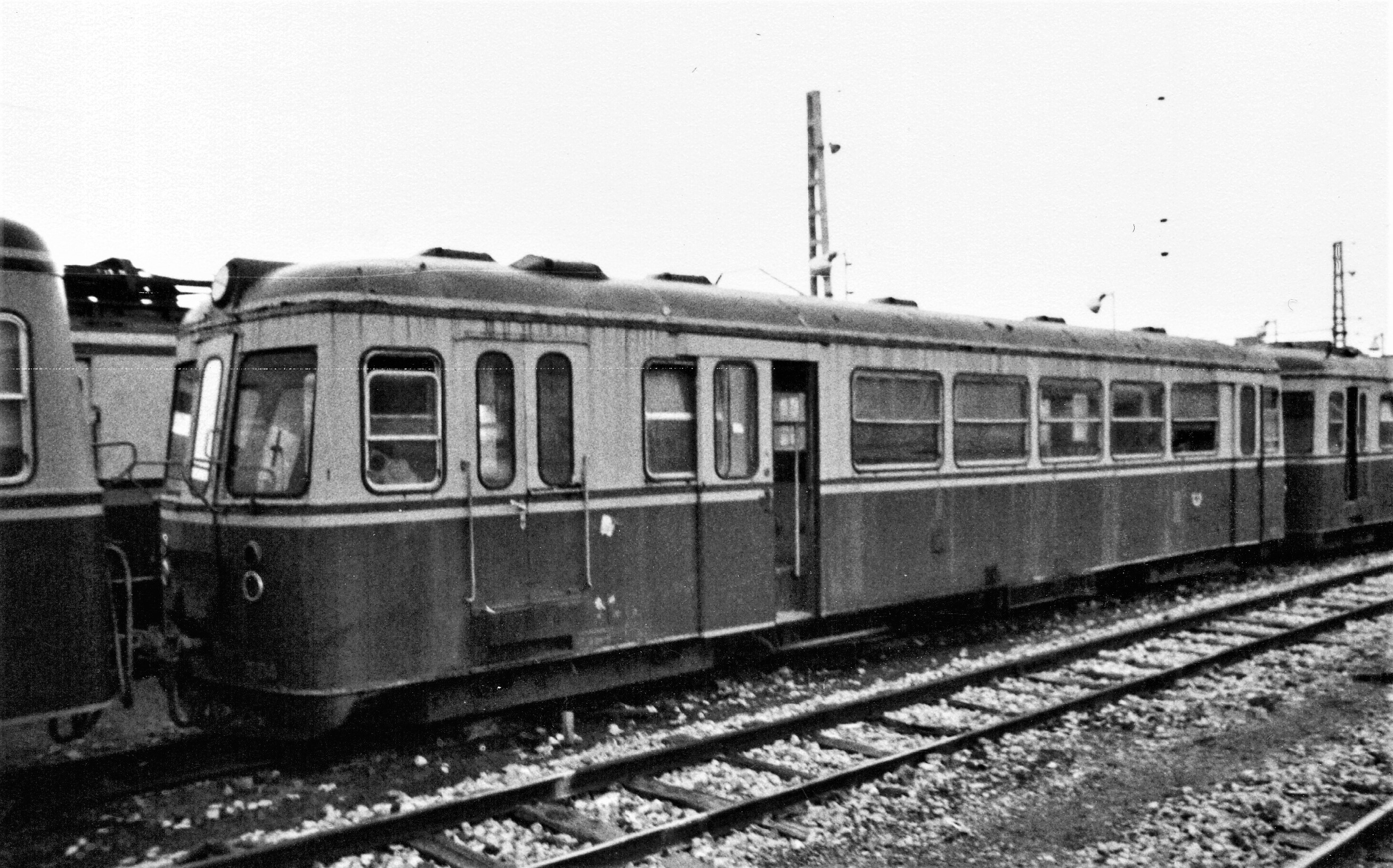 Ferrostaal diesel railcar number 3001 of Ferrocarrils de la Generalitat de Catalunya, yet put out of service, at the station of Martorell Enllaç.